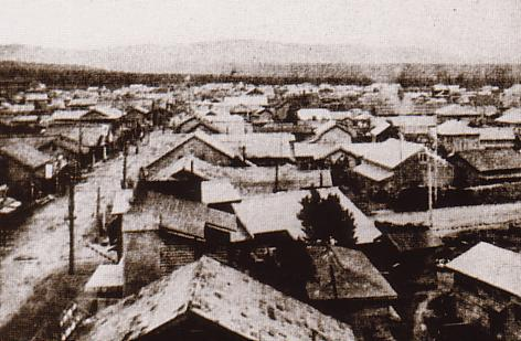 View of Ochiai(Dolinsk Долинск) in Karafuto